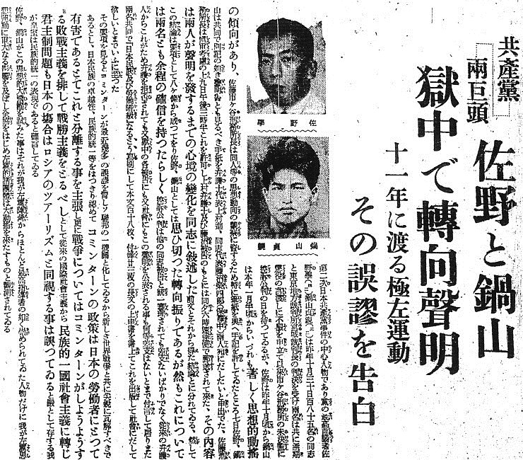 Tokyo Asahi Shimbun newspaper clipping (10 June 1933 issue)